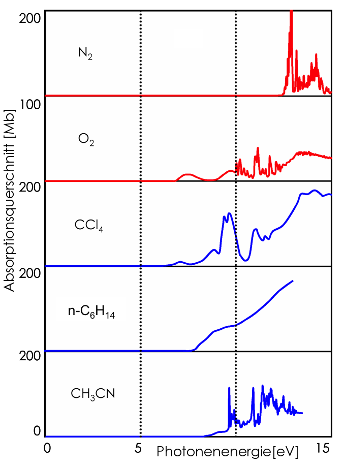 Absorption cross sections of some common gases and LC solvents at APPI and APLI ionization wavelengths